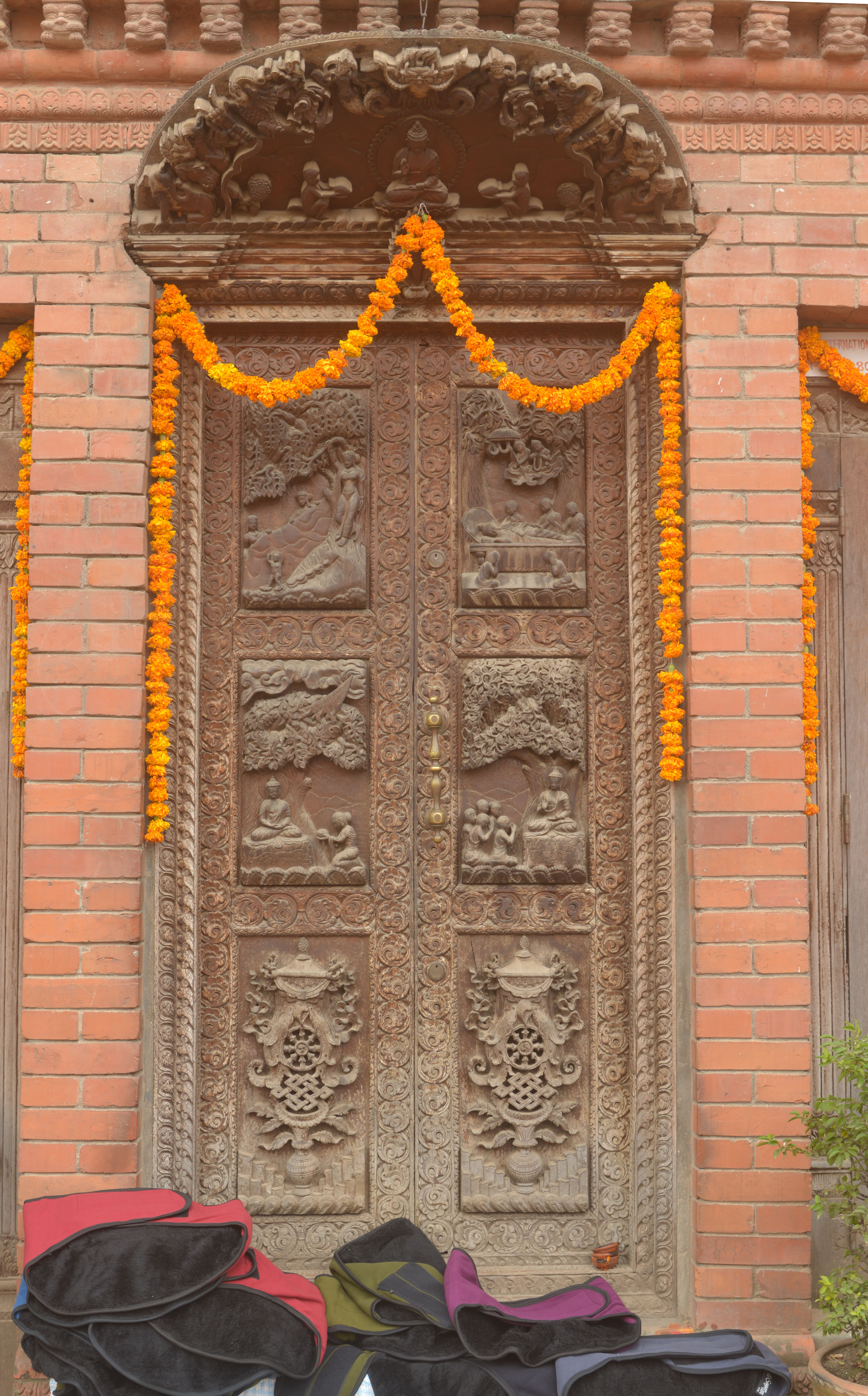 Carved door with Buddha life scenes, Nepal